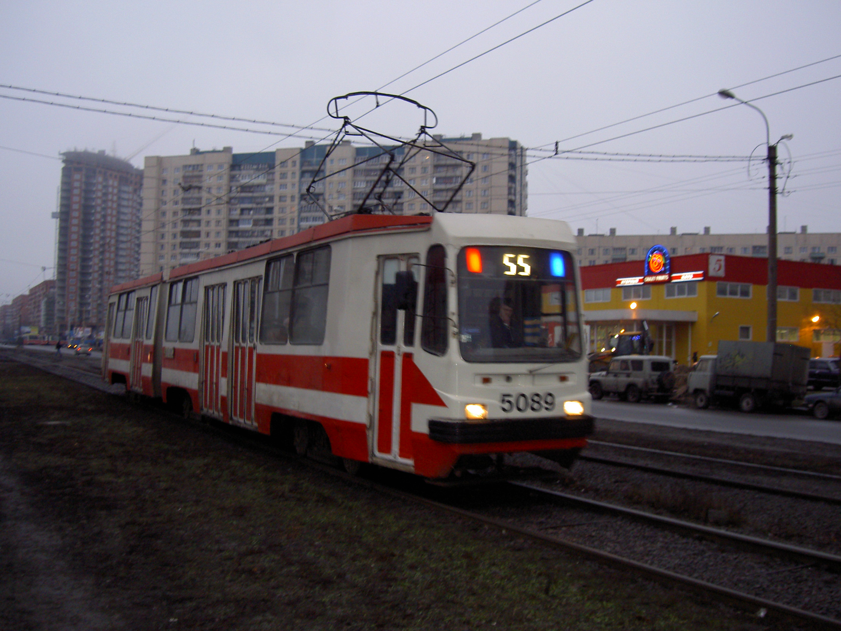 LVS-97 tram at Il'yushina street in Saint Petersburg.